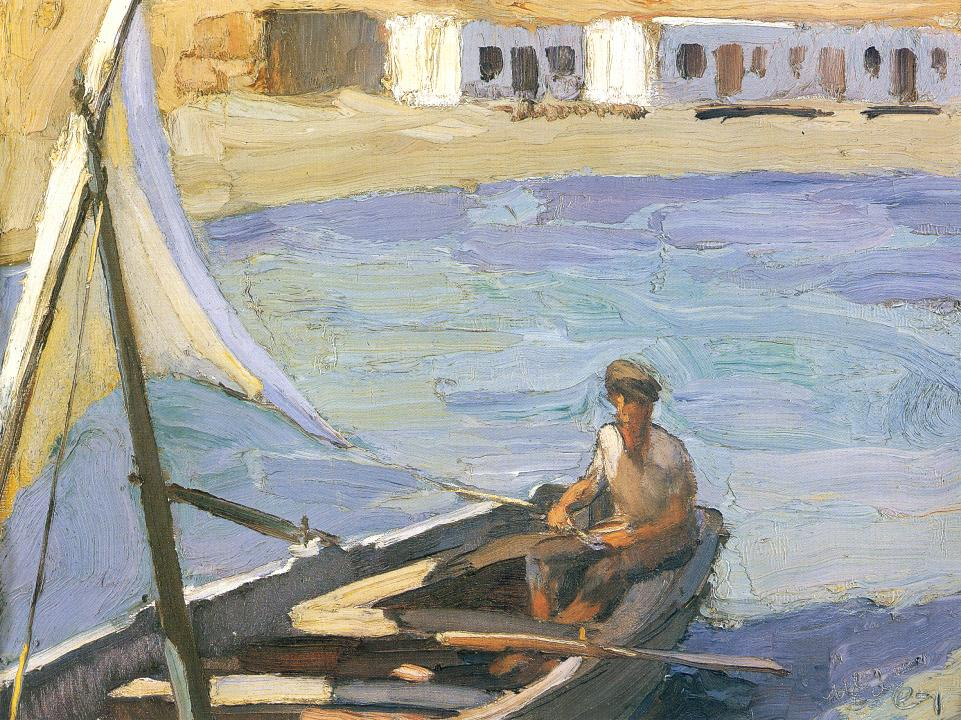 Nikolaos Lytras, Boat with Sail (Panormos, Tinos) 1923-1926, Oil on canvas, private collection